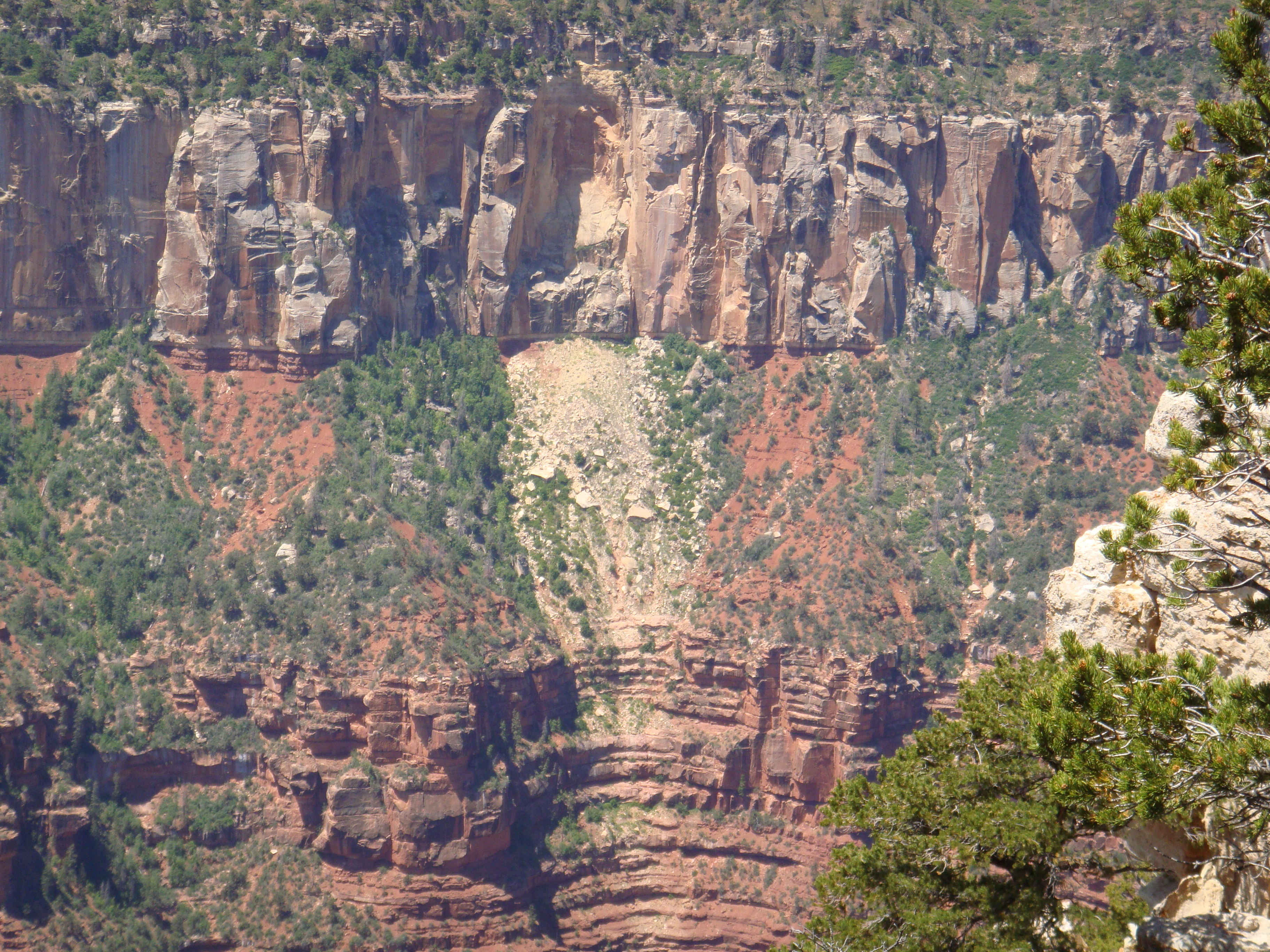 Historic rockfall scar and debris from the north rim of Grand Canyon National Park. Rockfall originates in the Coconino Sandstone.